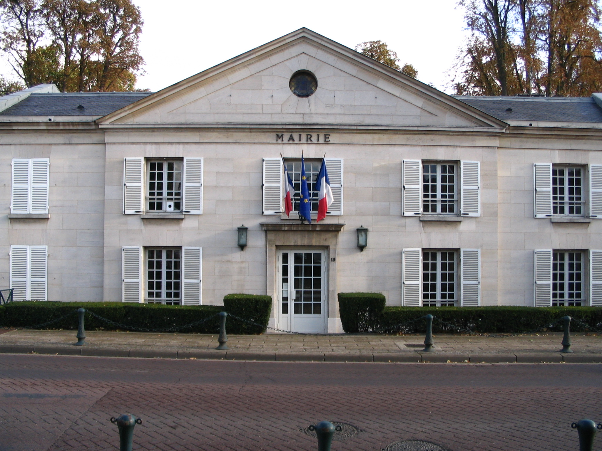 The town hall of Ormesson-sur-Marne, Val-de-Marne, France.